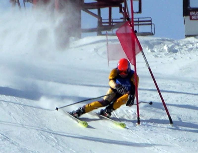 A CMSC (Chicago Metro Ski Council) Giant Slalom Ski Racer running a gates at Wilmot Mountain. Photo by Richard C. Drew, 02-07.